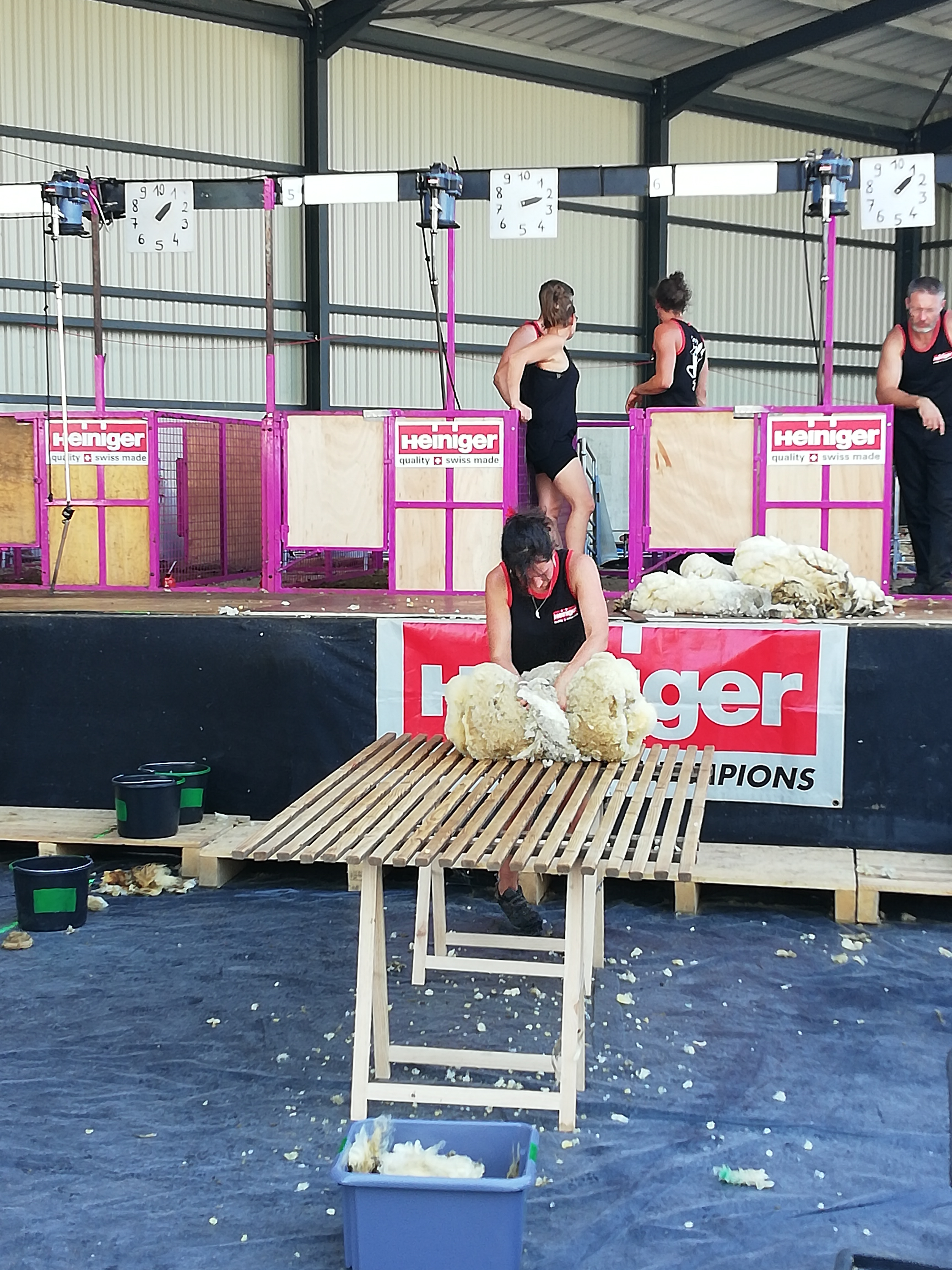 The wool handler once is done work, roll the fleece on itself, and it knots with the part from the neck, to make a bundle without string